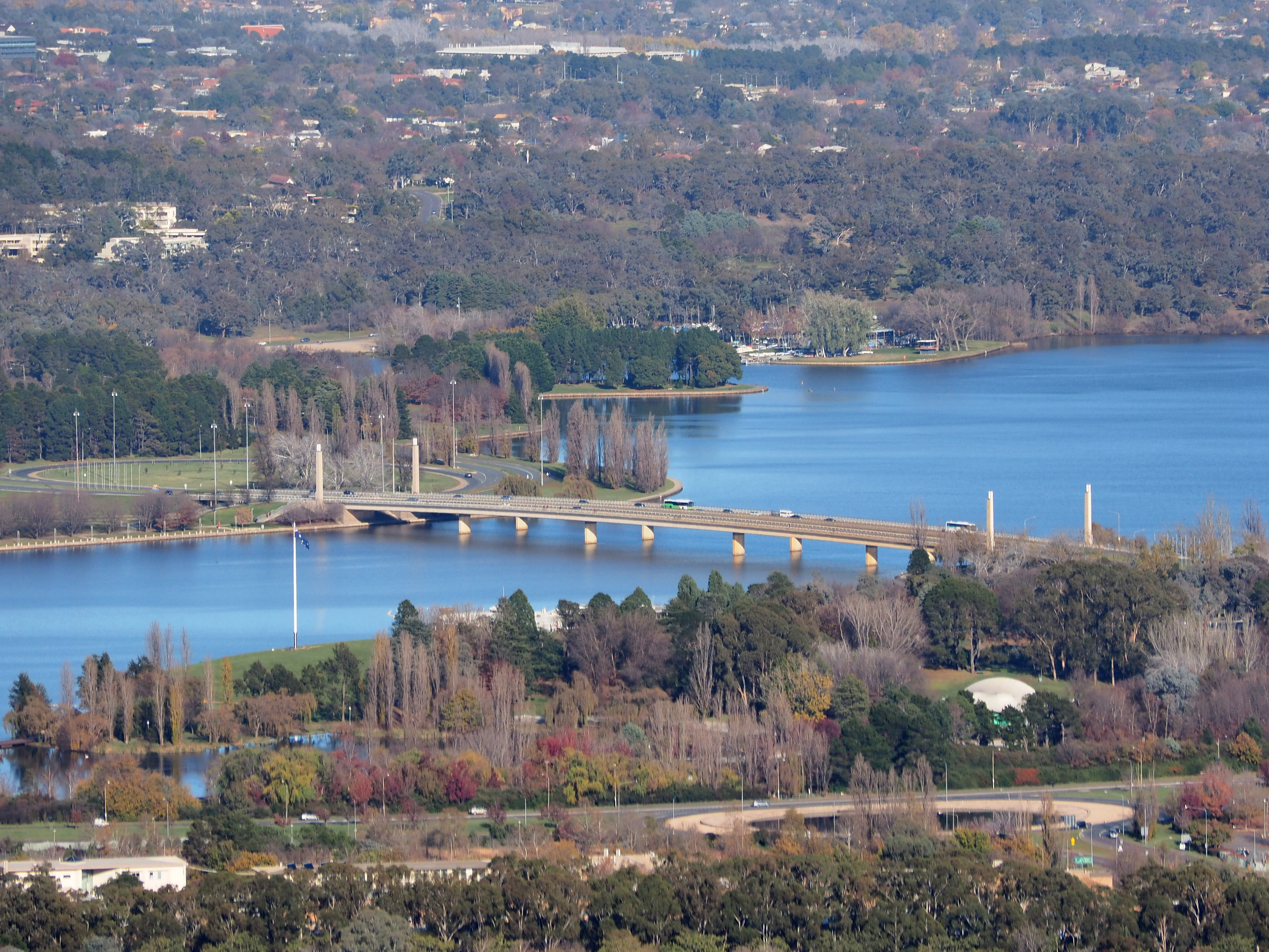 Commonwealth Avenue Bridge viewed from Mount Ainslie